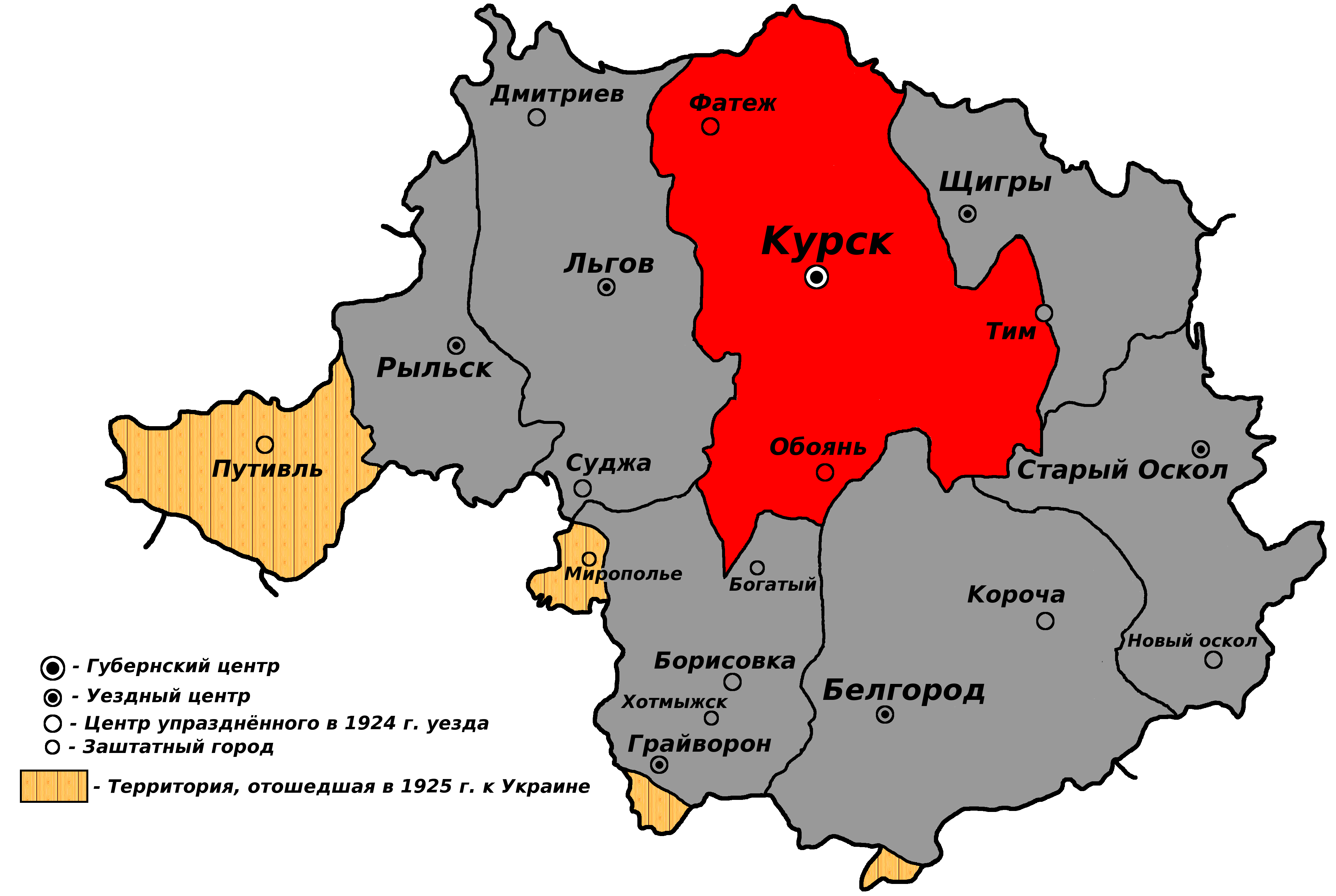 Kursk gubernia (RSFSR, 1924-1928), Kursky_uyezd